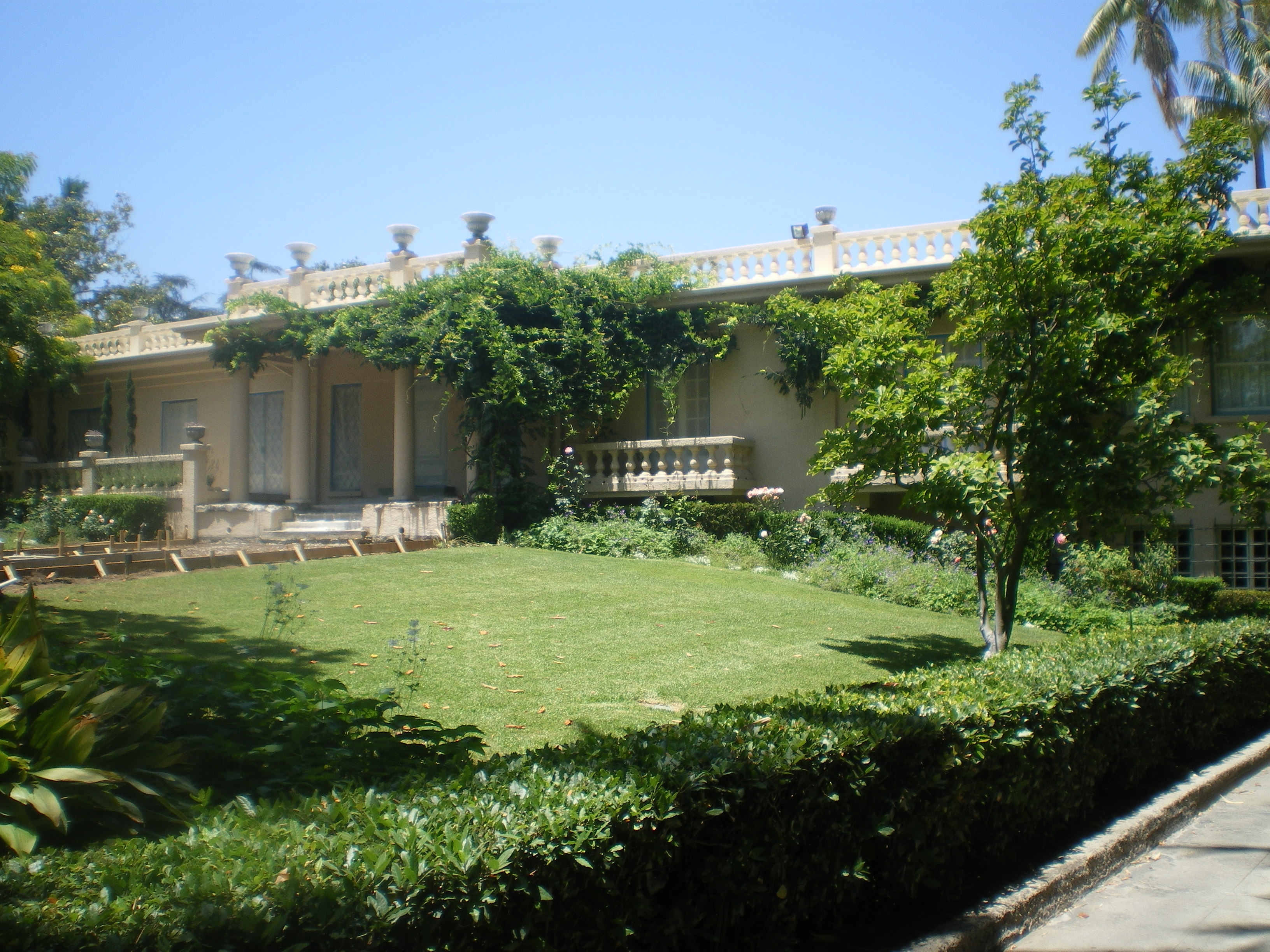 The Virginia Robinson Gardens — a public museum and garden park in Beverly Hills, California. The Virginia Robinson Estate includes: historic landscape gardens; the 1911 Beaux-Arts style mansion (shown); the 1924 Renaissance Revival Pool Pavilion, and a subtropical botanical garden. The first residence builtin Beverly Hills, it is a California Historical Landmark, on the National Register of Historic Places, and on the City of Beverly Hills Local Register of Historic Properties.